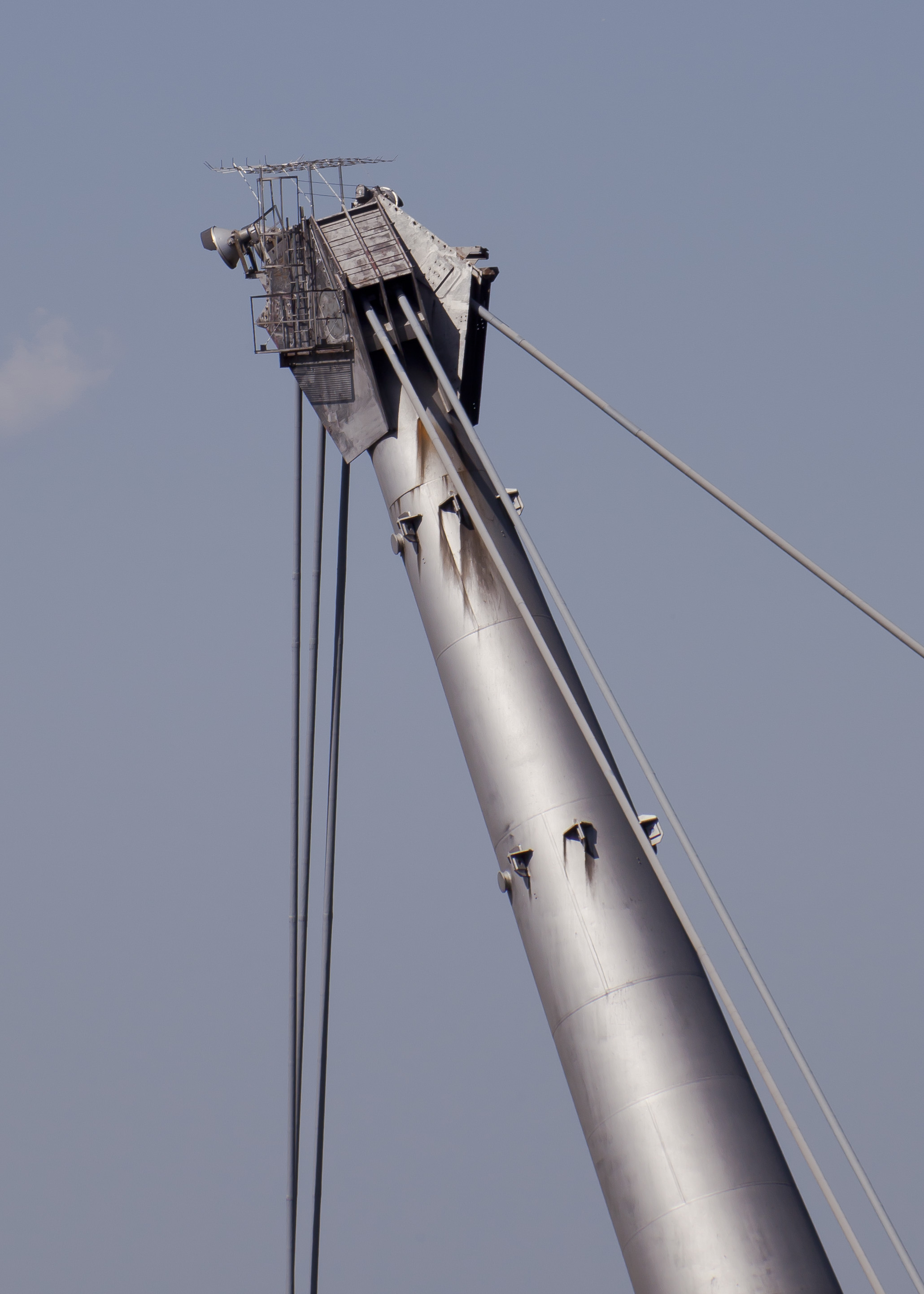 Steel pillars and cables to stabilize the sweeping canopies of acrylic glass over the Olympic Stadium, Munich, Germany